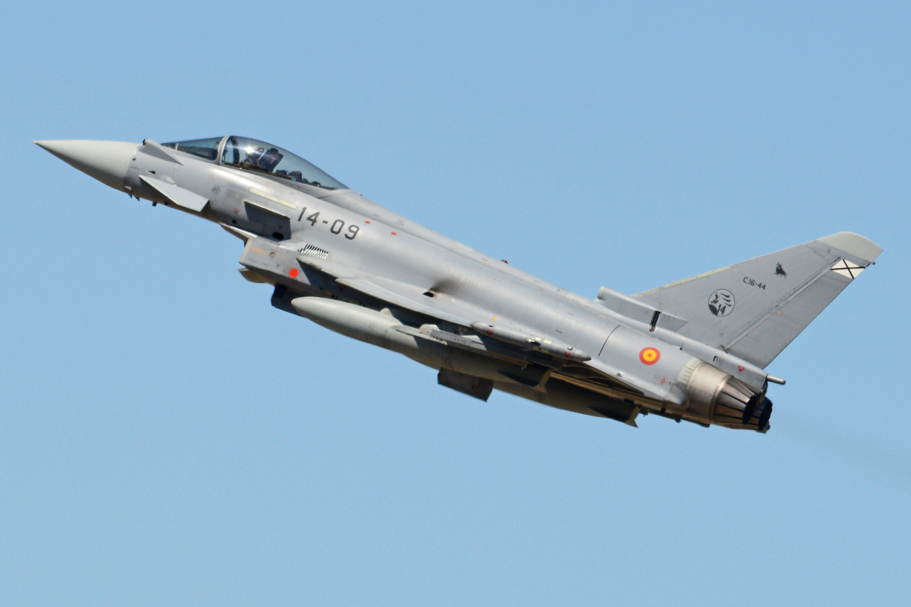 c/n SS025. Operated by 142Esc, part of Ala 14 Spanish Air Force based at Albacete. Seen during the 2016 NATO Tiger Meet (NTM) held at Zaragoza Air Base, Spain. 20th May 2016